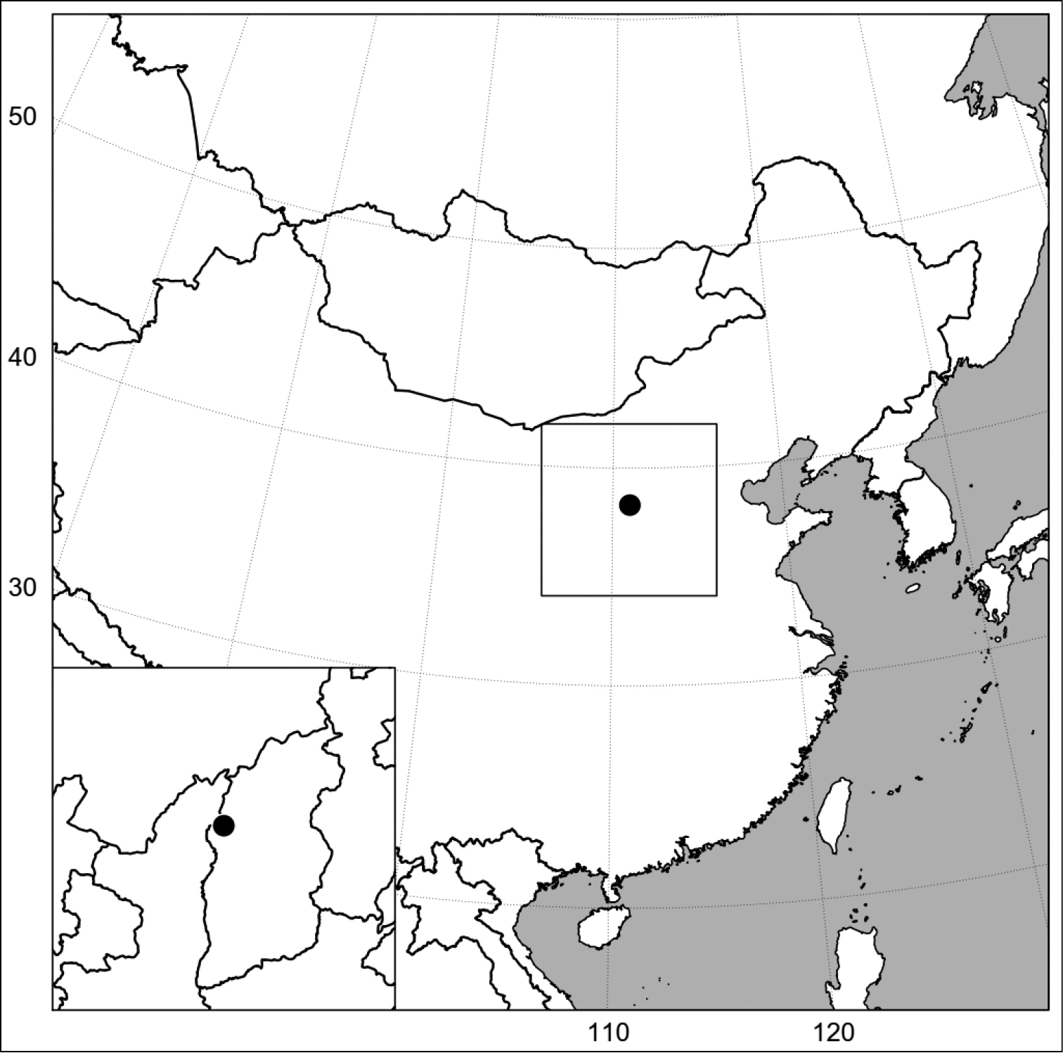 Distribution of Hieracium sinoaestivum Sennikov.